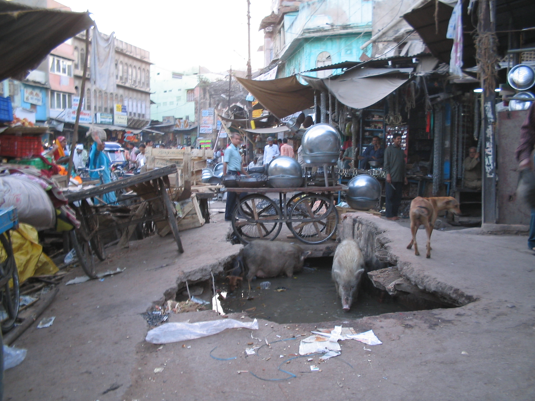 sewer drains. Ajmer, India.